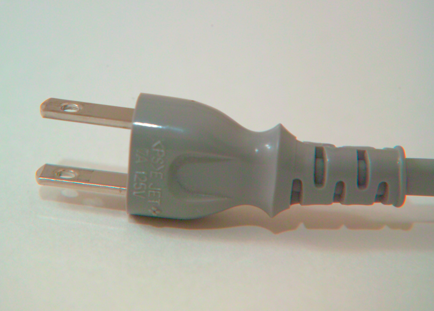 Japanese household electric plug